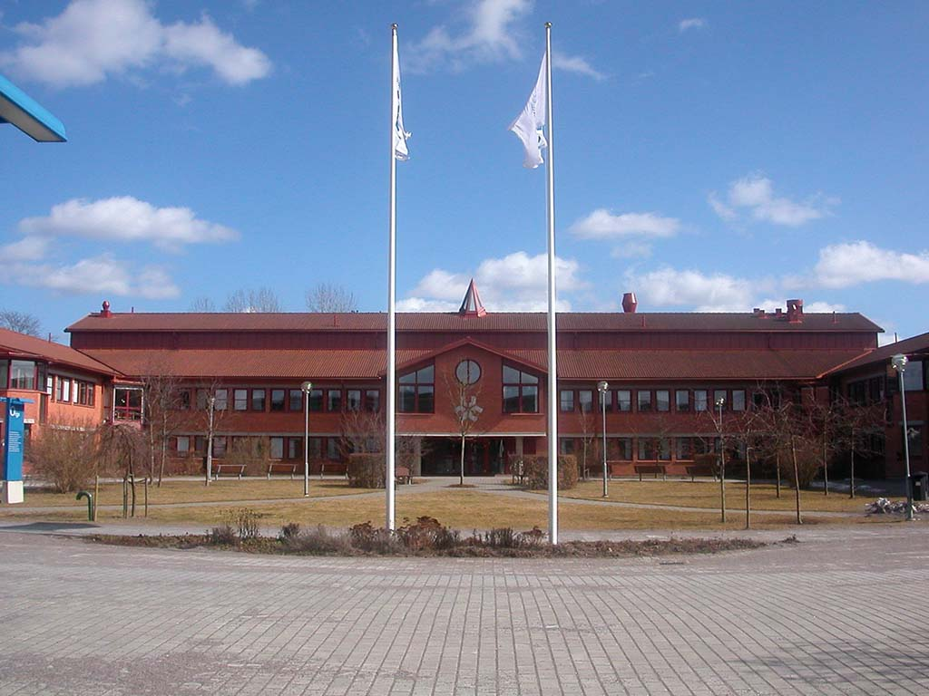 Primary administrative building (“Origo”) at Linköping University, Linköping, Sweden.